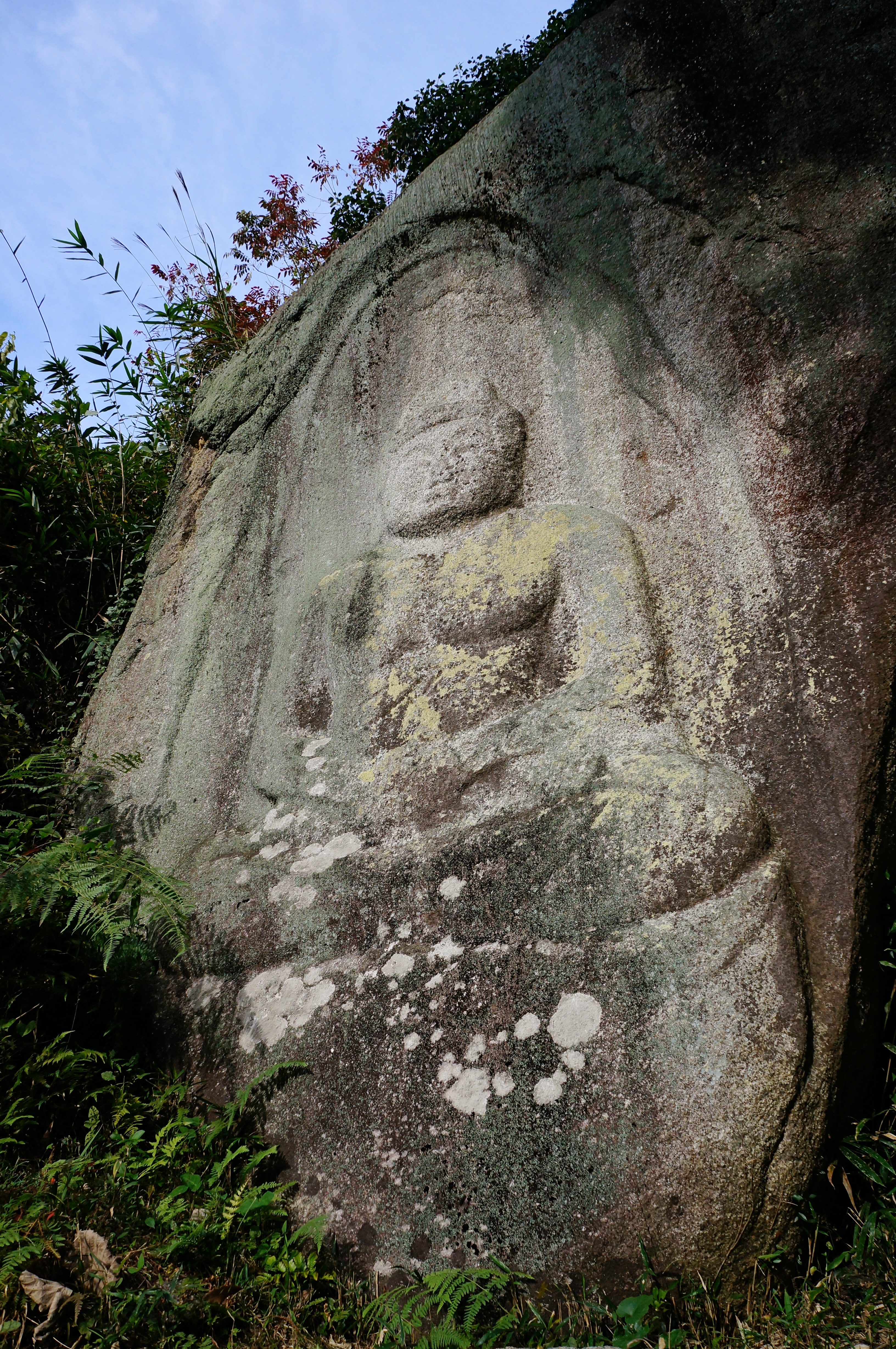 Tono, Kizugawa, Kyoto prefecture, Japan